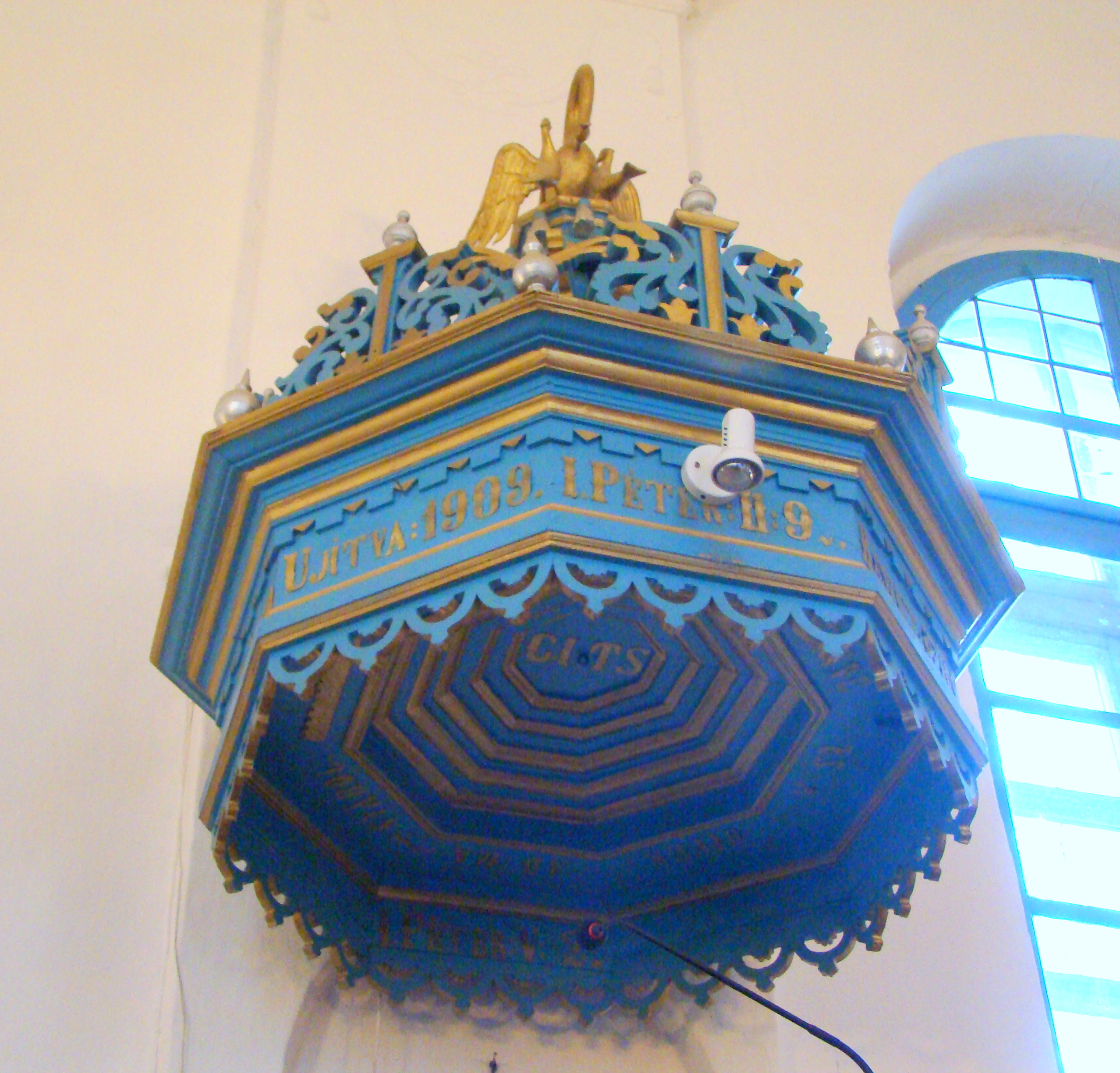 Reformed church in Chibed, Mureș County, Romania